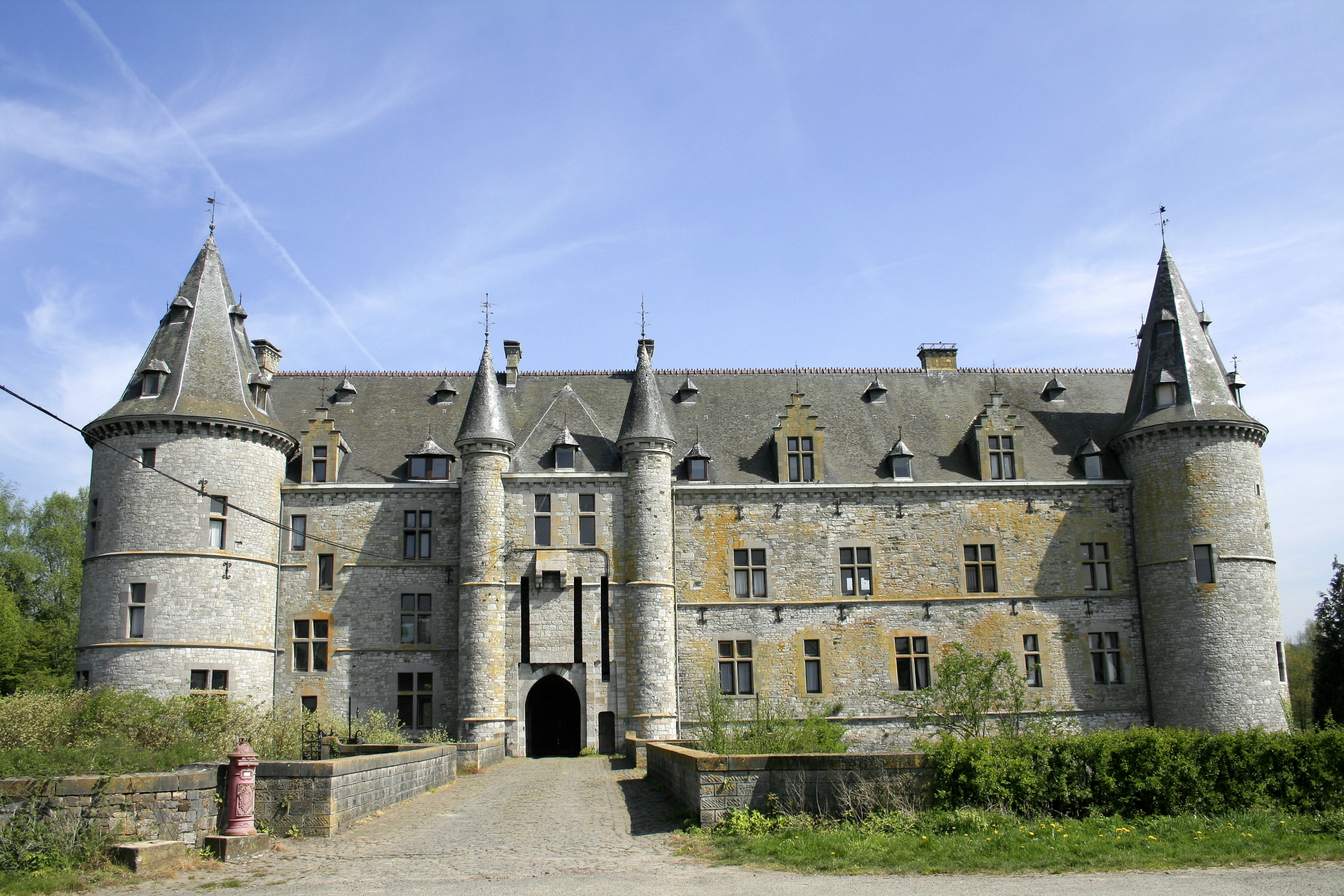 Fallais (Belgium), the lowland fortress (XIIIth century.